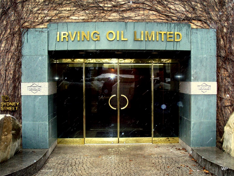 Irving Corp. HQ in St. John, NB.